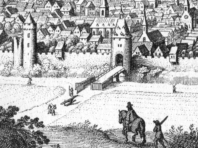 Copper-engraving of the view on Aachen by Matthäus Merian. Detail showing bays on the wall near Marschiertor